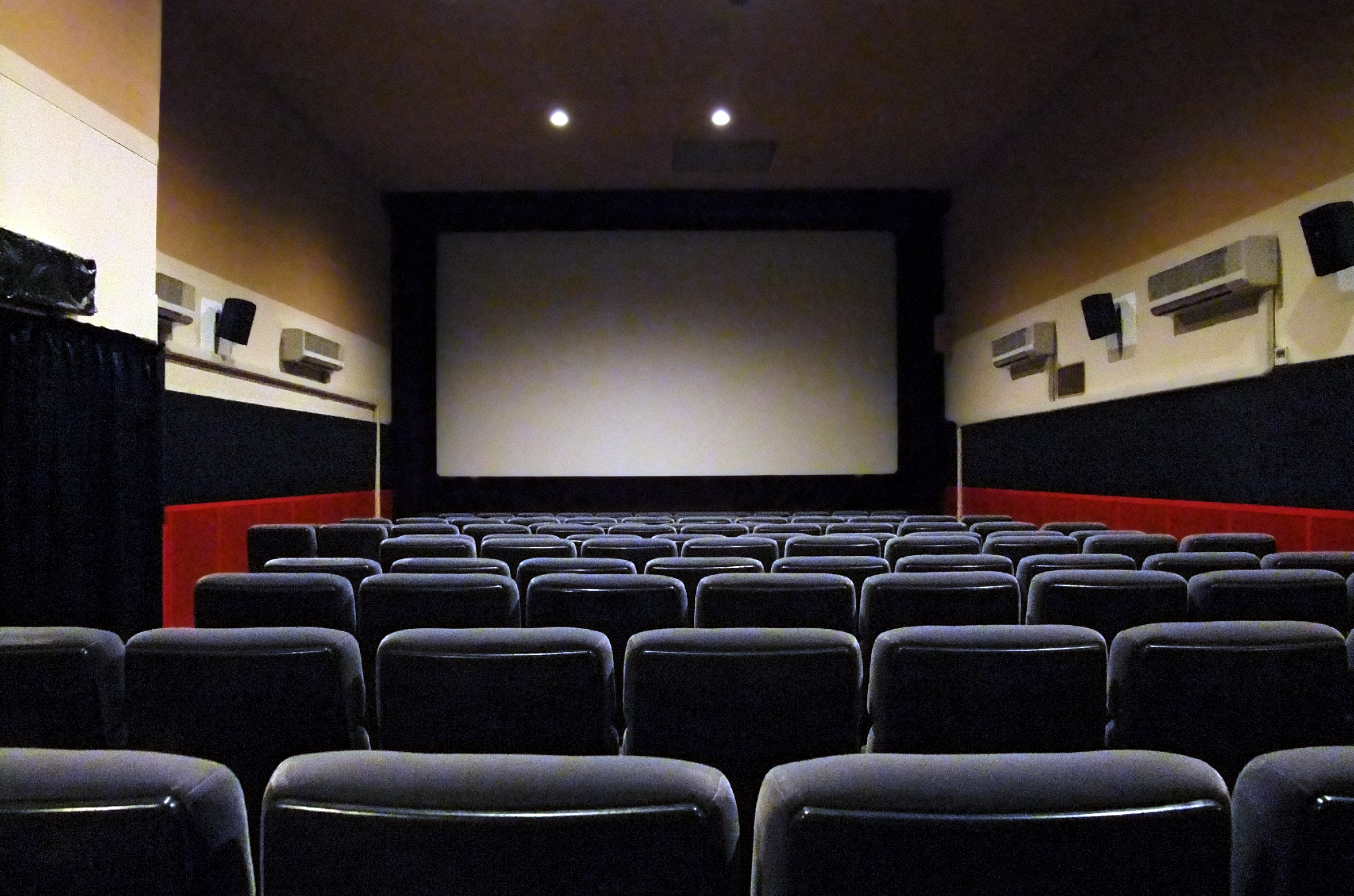 Takatsuki Select Cinema in Takatsuki, Osaka Prefecture, Japan.